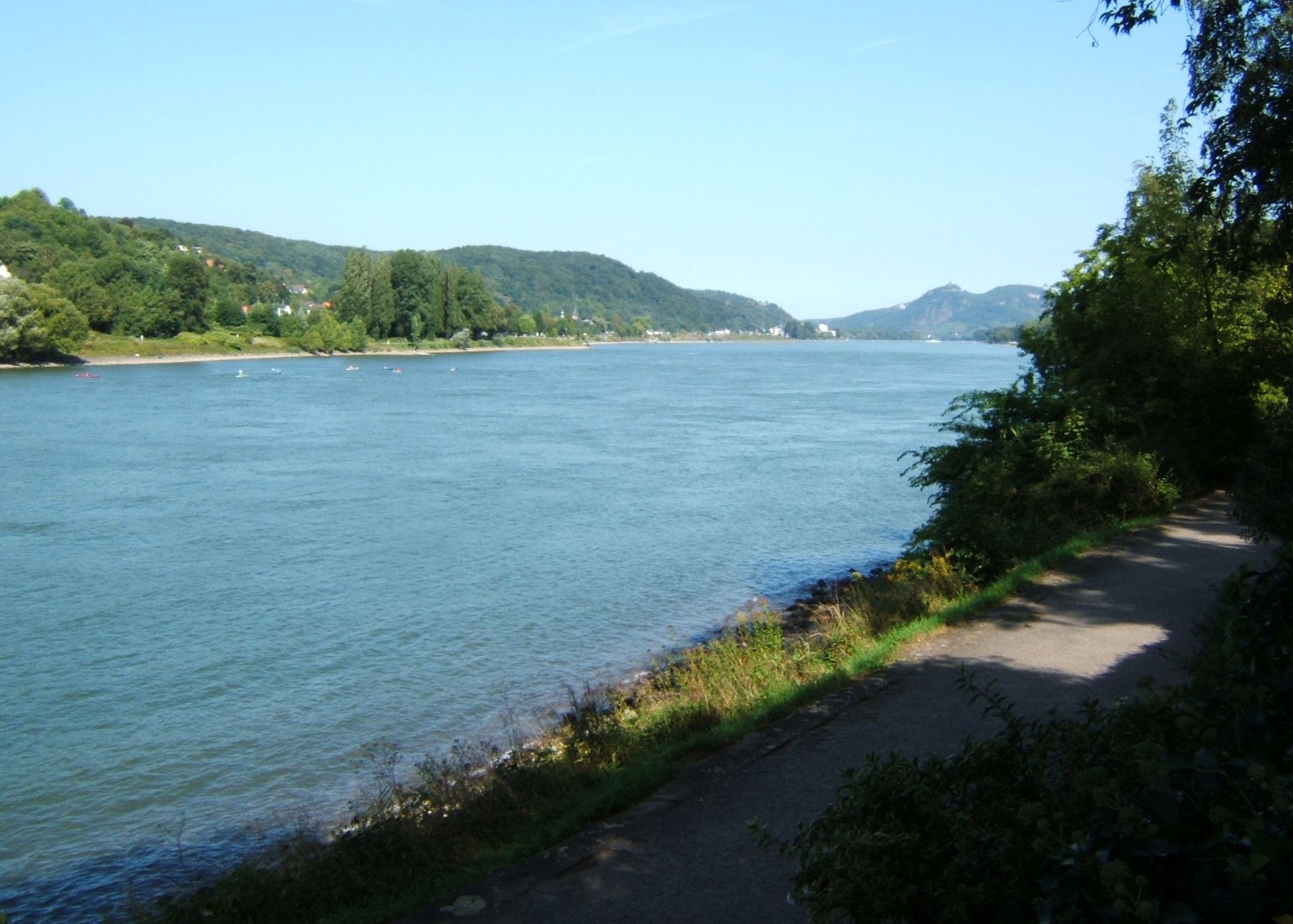 This image shows the rhine in Unkel, viewed towards Bad Honnef.